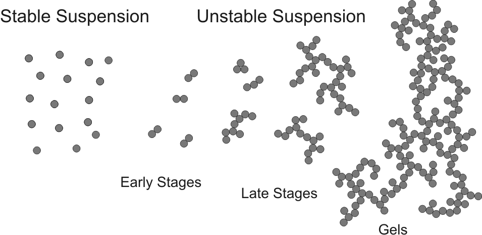 This scheme depicts different modes of particle aggregation in a colloidal suspension